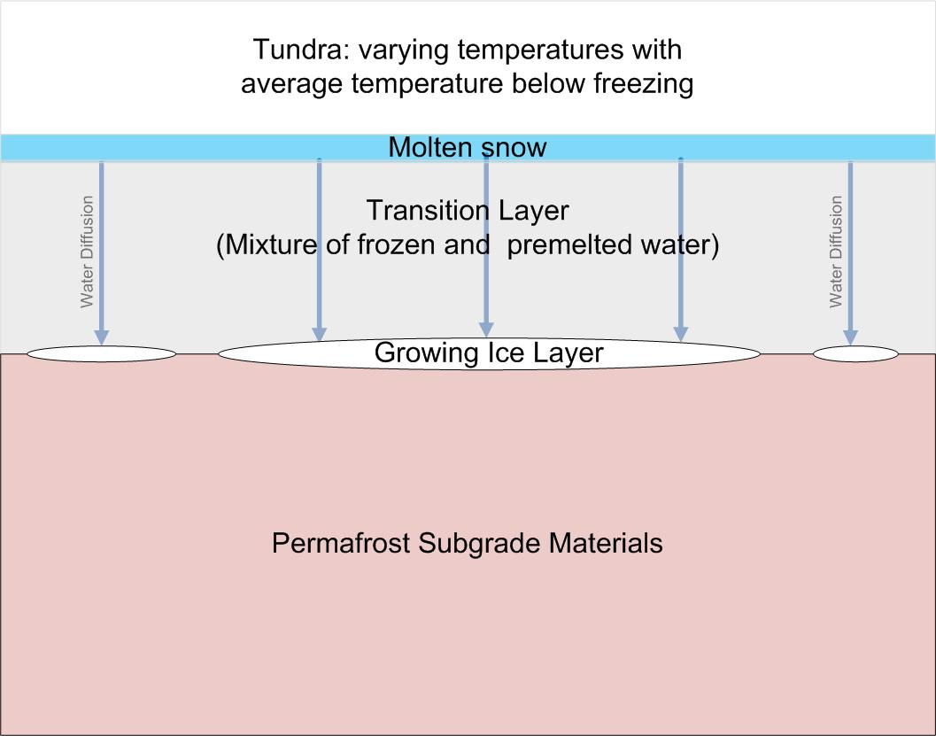 For use with an article being written on ice lenses. Dash2006 - Dash, G.,; A. W. Rempel, J. S. Wettlaufer (2006). "The physics of premelted ice and its geophysical consequences". Rev. Mod. Phys. 78 (695). American Physical Society. Retrieved on 30 November 2009. Murton2006 - Murton, Julian B.; Peterson, Rorik & Ozouf, Jean-Claude (17 November 2006). "Bedrock Fracture by Ice Segregation in Cold Regions". Science 314 (5802): 1127 - 1129. Retrieved on 30 November 2009. Rempel2007 - Rempel, A.W. (2007). "Formation of ice lenses and frost heave". Journal of Geophysical Research 112 (F02S21). American Geophysical Union. Retrieved on 30 November 2009. Rempel2008 – Rempel, A. W. (2008). "A theory for ice-till interactions and sediment entrainment beneath glaciers". Journal of Geophysical Research: F01013. American Geophysical Union.. Retrieved on 30 November 2009. Peterson2008 - Peterson, R. A.,; Krantz , W. B. (2008). "Differential frost heave model for patterned ground formation: Corroboration with observations along a North American arctic transect". Journal of Geophysical Research 113: G03S04. American Geophysical Union.. Retrieved on 30 November 2009., Walder1985 - Walder, Joseph; Hallet, Bernard (March 1985). "A theoretical model of the fracture of rock during freezing". Geological Society of America Bulletin 96 (3): 336-346. Geological Society of America.. 10.1130/0016-7606(1985)96 2.0.CO;2. Retrieved on 30 November 2009.